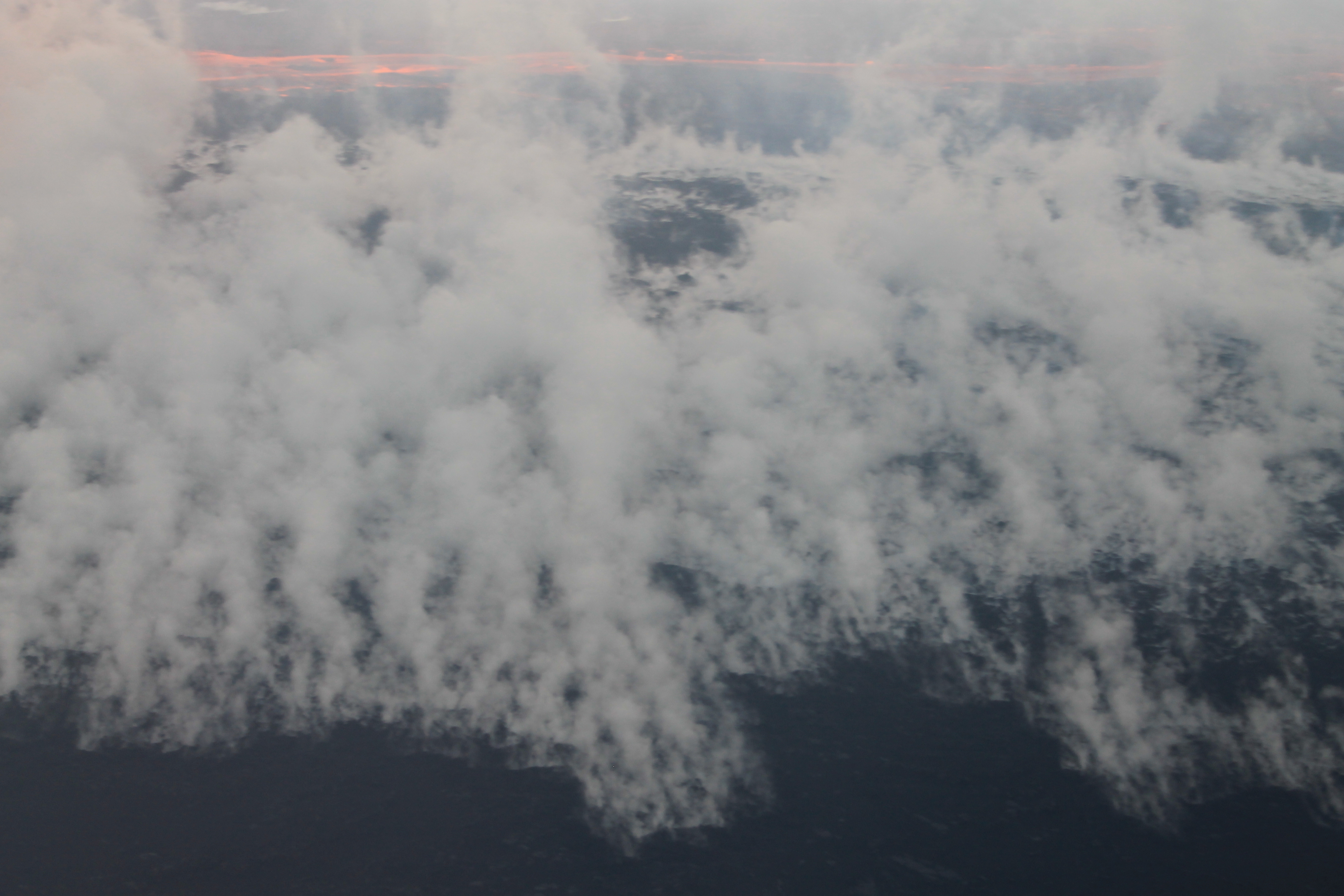 Pictures taken by Peter Hartree between 14.30 and 15.00 on September 4th 2014. I'm sorry for the less than ideal quality of these - this wasn't a professional photo shoot. All photos are unedited. I have a bunch more (fairly similar) shots - if you'd like to see them, write to . Many thanks to pilot Siggi G for the ride.